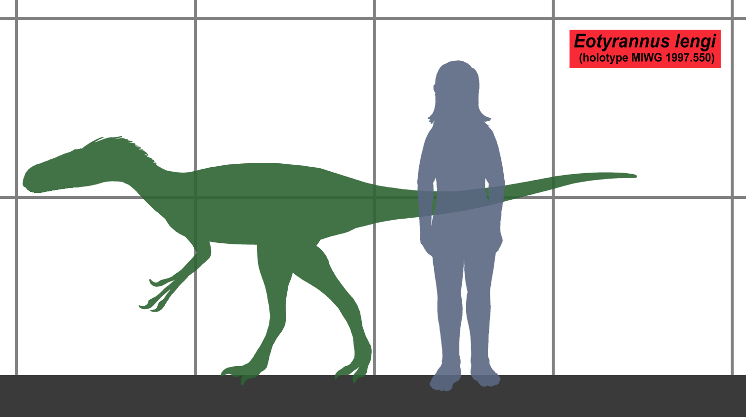 Size comparison between the theropod dinosaur Epotyrannus lengi and a human. Eotyrannus are only known from a single partial skeleton (MIWG 1997.550), which is believed to have been about 4 meter at death. However, as it is believed to have been a subadult, a fully grown maybe could have been somewhat larger.